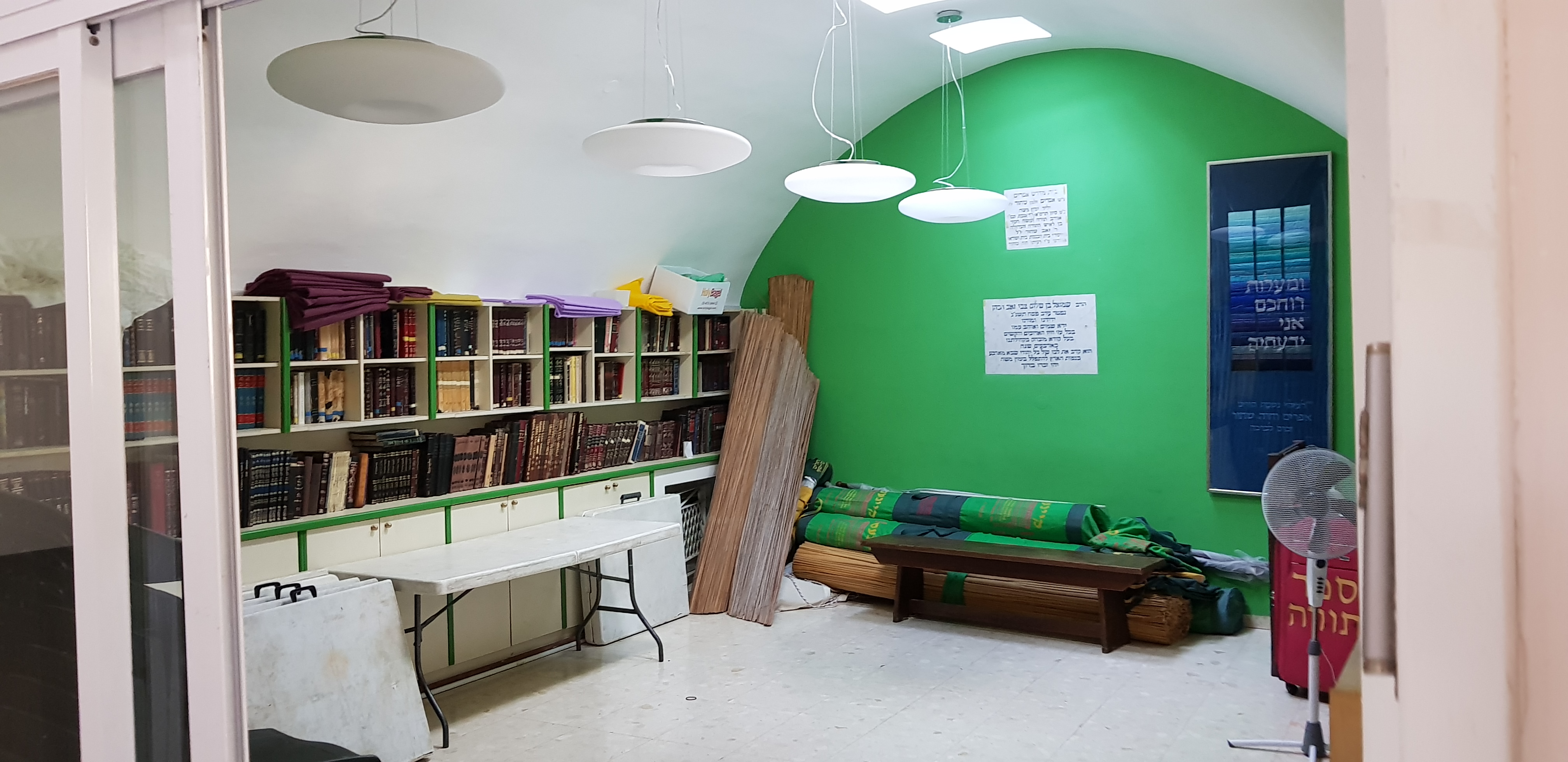 בור המים התת קרקעי אשר הפך לבית מידרש